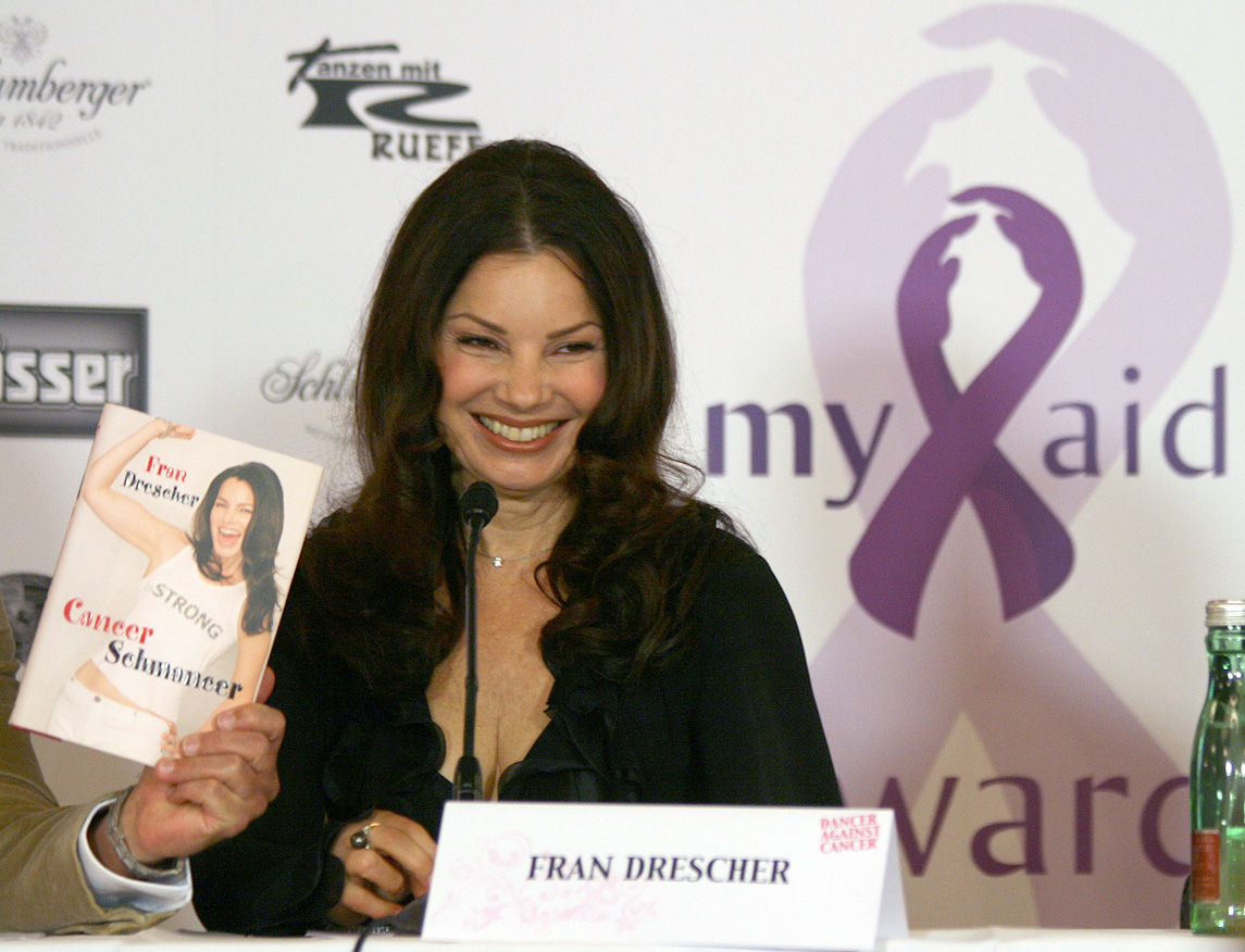 Fran Drescher during a press conference for the charity ball dancer against cancer (Palais Auersperg, Vienna)